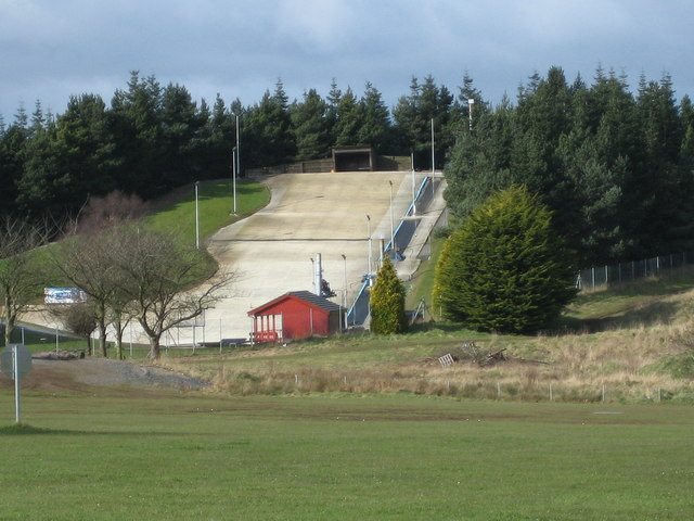 Ski Slope. Northern Ireland's premier artificial ski slope is located at Silverwood near Lurgan. Ideal for beginners and expert skiers and snowboarders, the centre has: 200ft main slope, nursery slope for beginners, button tow, mist lubrication system which enhances the quality of skiing. Floodlit for night-time skiing